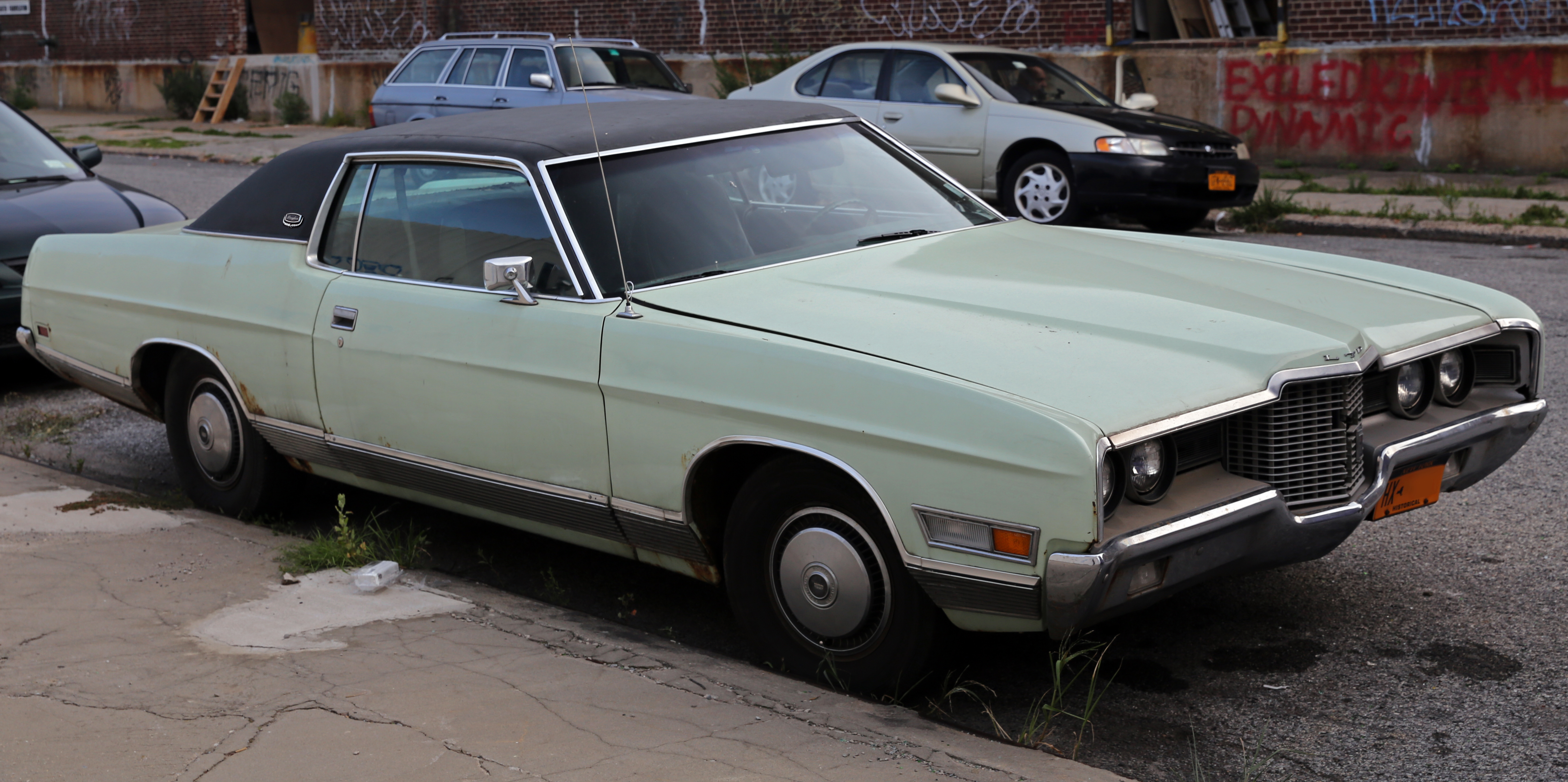 Front right view of a 1971 Ford LTD Brougham 2-door hardtop (bodystyle 68) with the two-barrel 429 cubic inch big block V8 (engine code "K"), built in Los Angeles, CA. A bit scruffy perhaps, but so is the neighborhood.